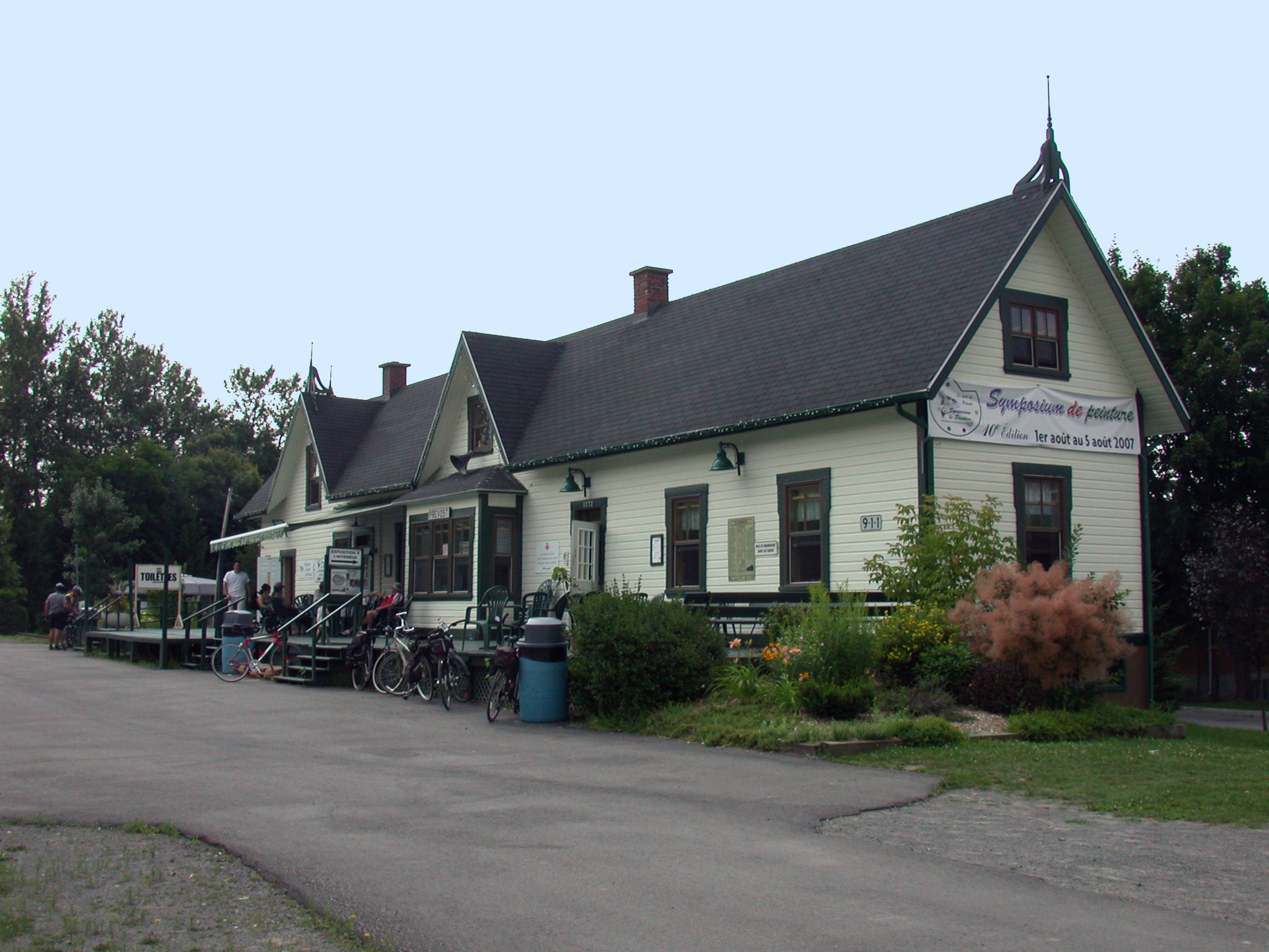 Prévost train station (formerly a Canadian Pacific Railway station) in Prévost, Québec, on the P'tit Train du Nord linear park trail